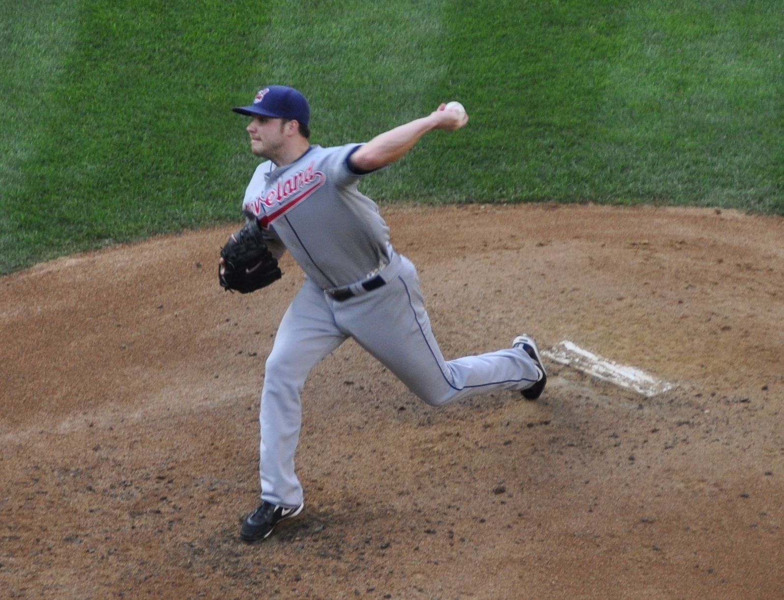 Cleveland Indians pitcher Aaron Laffey, pitching in a winning effort against the Seattle Mariners at Seattle's Safeco Field, 24 July 2009.